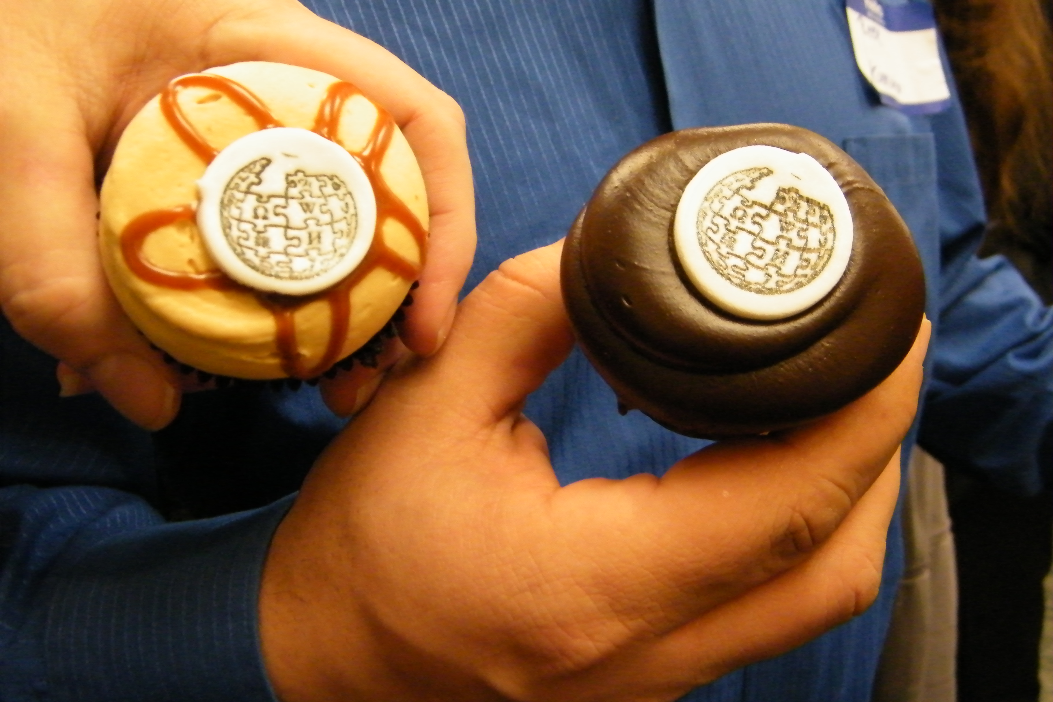 Wikipedia cupcakes, an in-kind donation by Georgetown Cupcake before being devoured by Wikipedians.